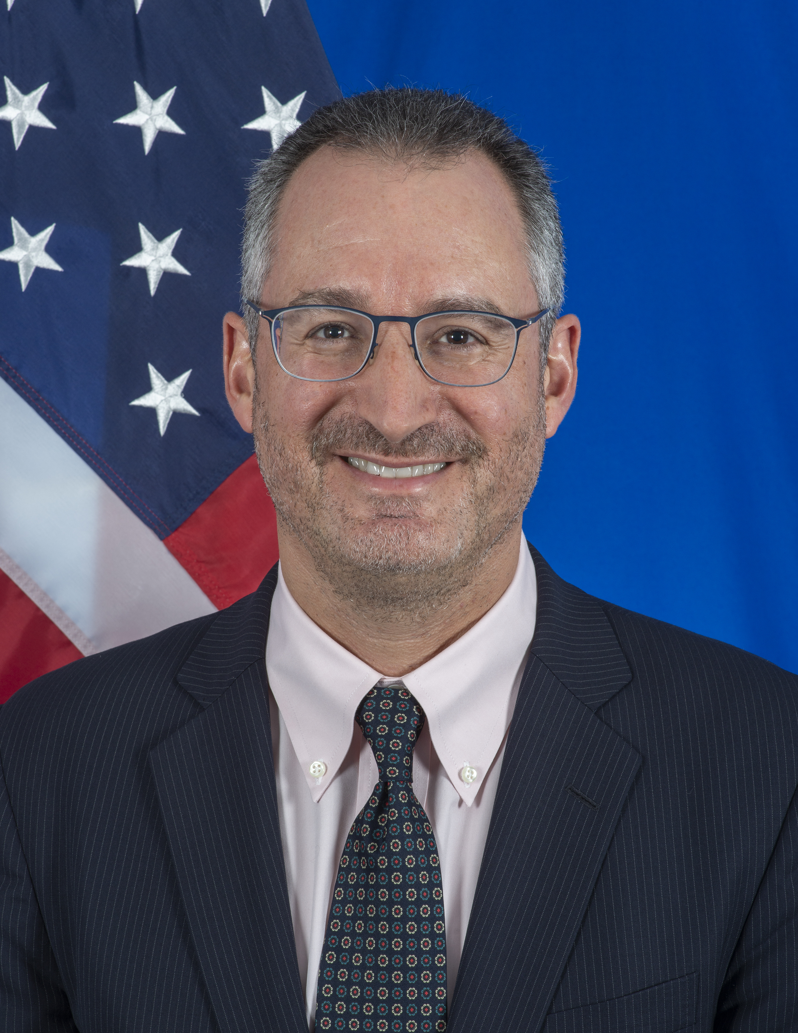 Chargé d’Affaires Brian Shukan